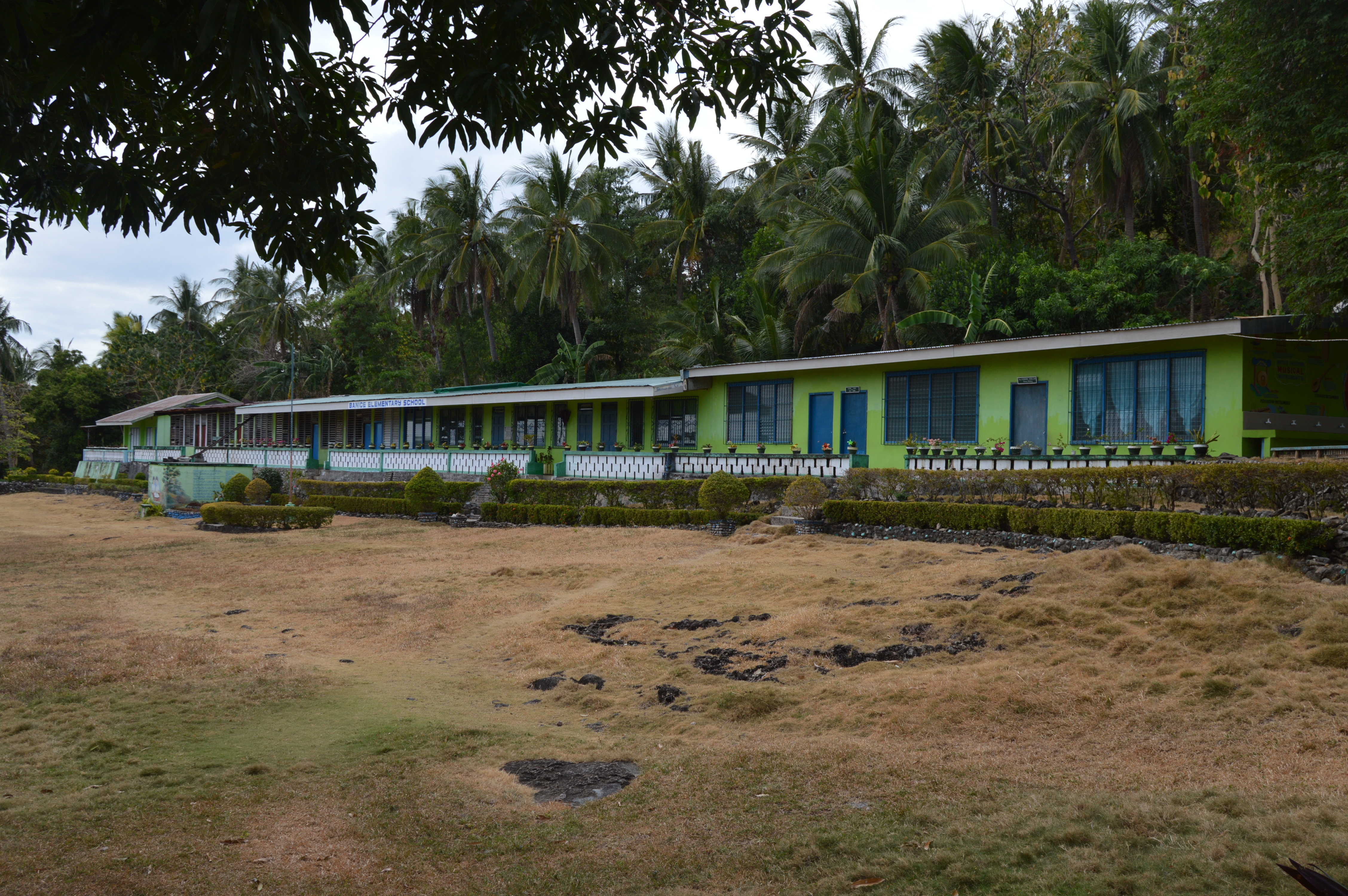 Banice Elementary School is a basic education institution in Barangay Banice, Banton, Romblon